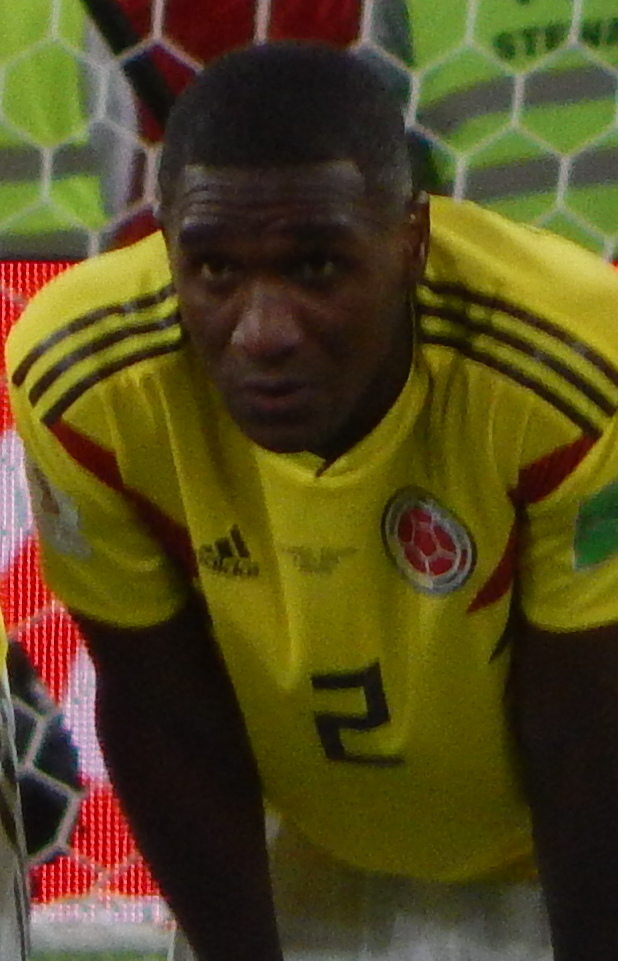 FIFA World Cup 2018, Round of 16, Colombia vs. England